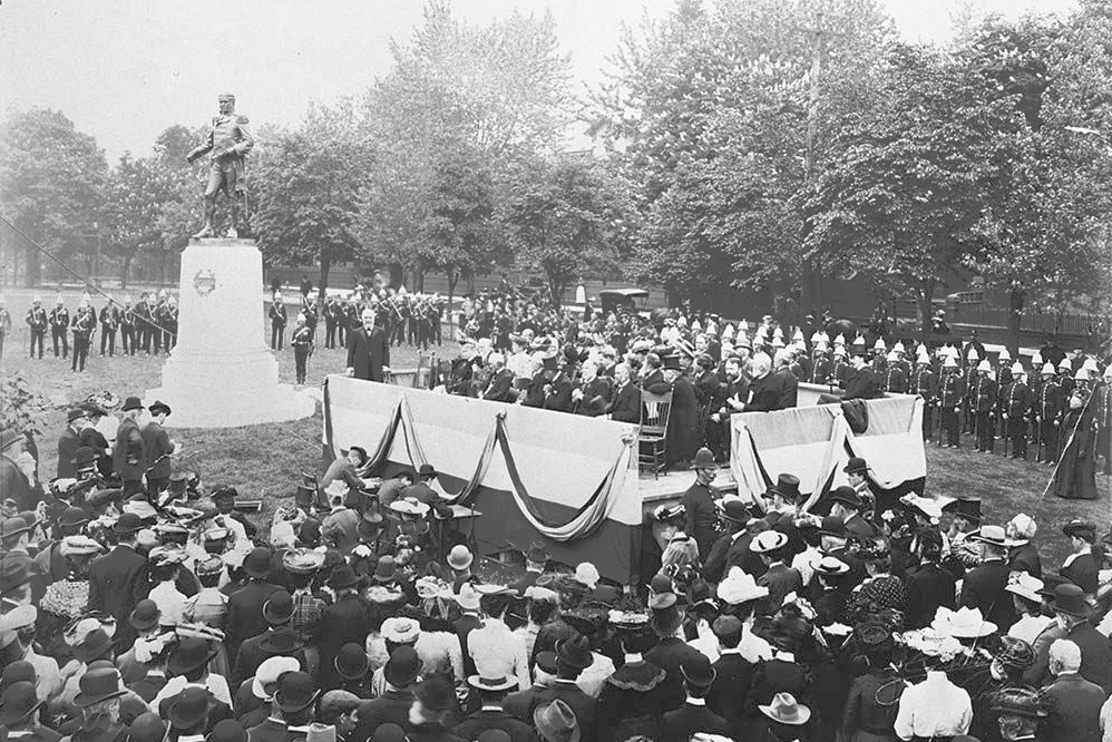 The unveiling of the General John Graves Simcoe monument at Queen's Park in Toronto.